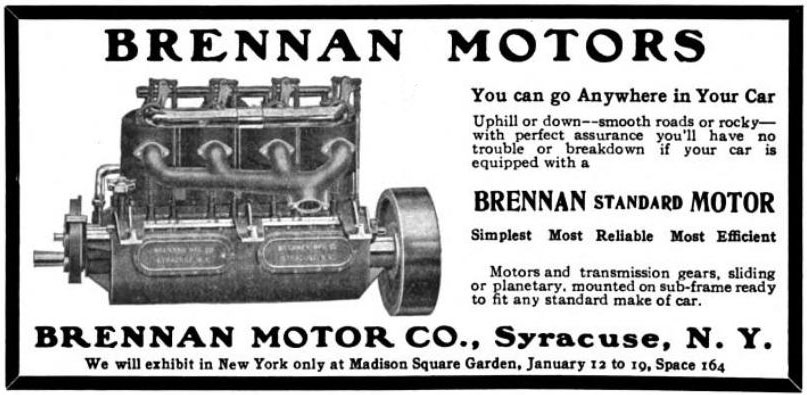 Brennan Motors Advertisement 1906